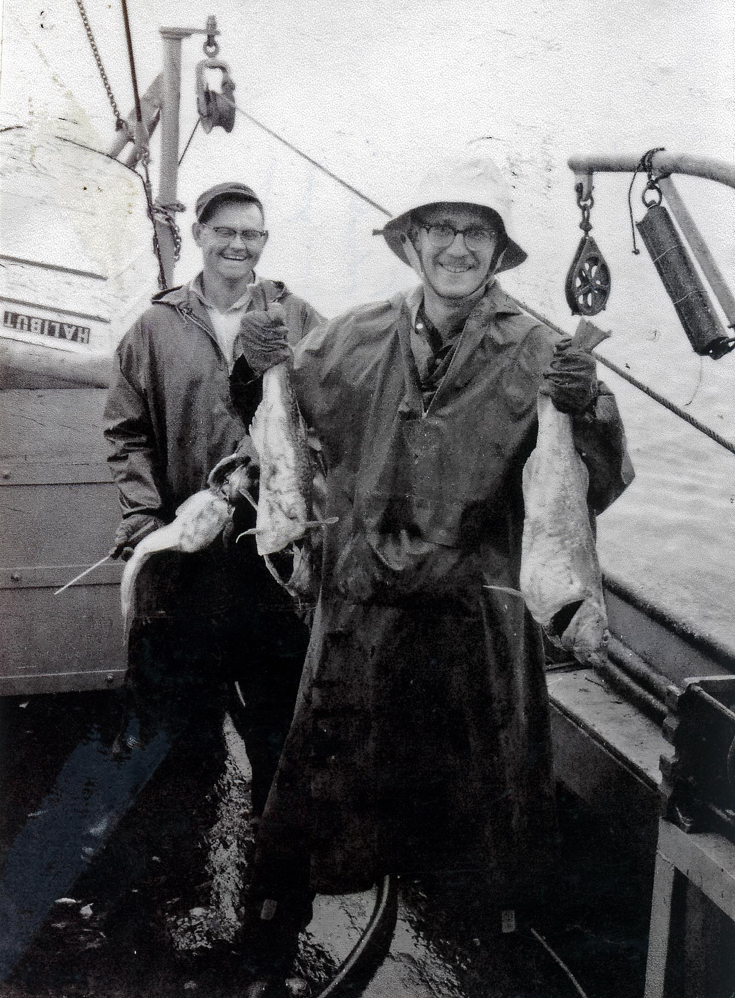 This photo was taken on my camera by one of my shipmates in 1962 and is owned by me, John Hill. John E. Hill (talk) 05:11, 5 September 2009 (UTC)